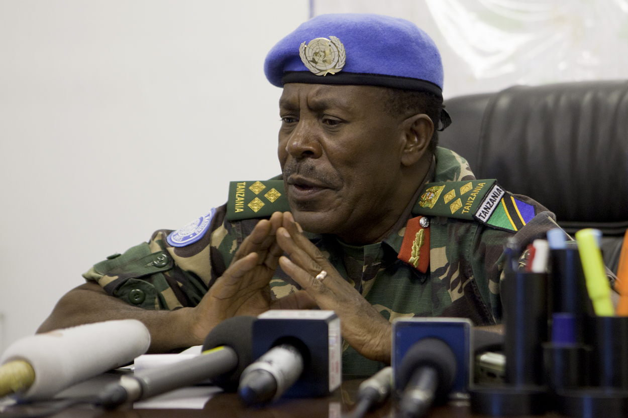 MONUSCO FIB commander Brig Gen. James Mwakibolwa meets with international media in his Goma office.